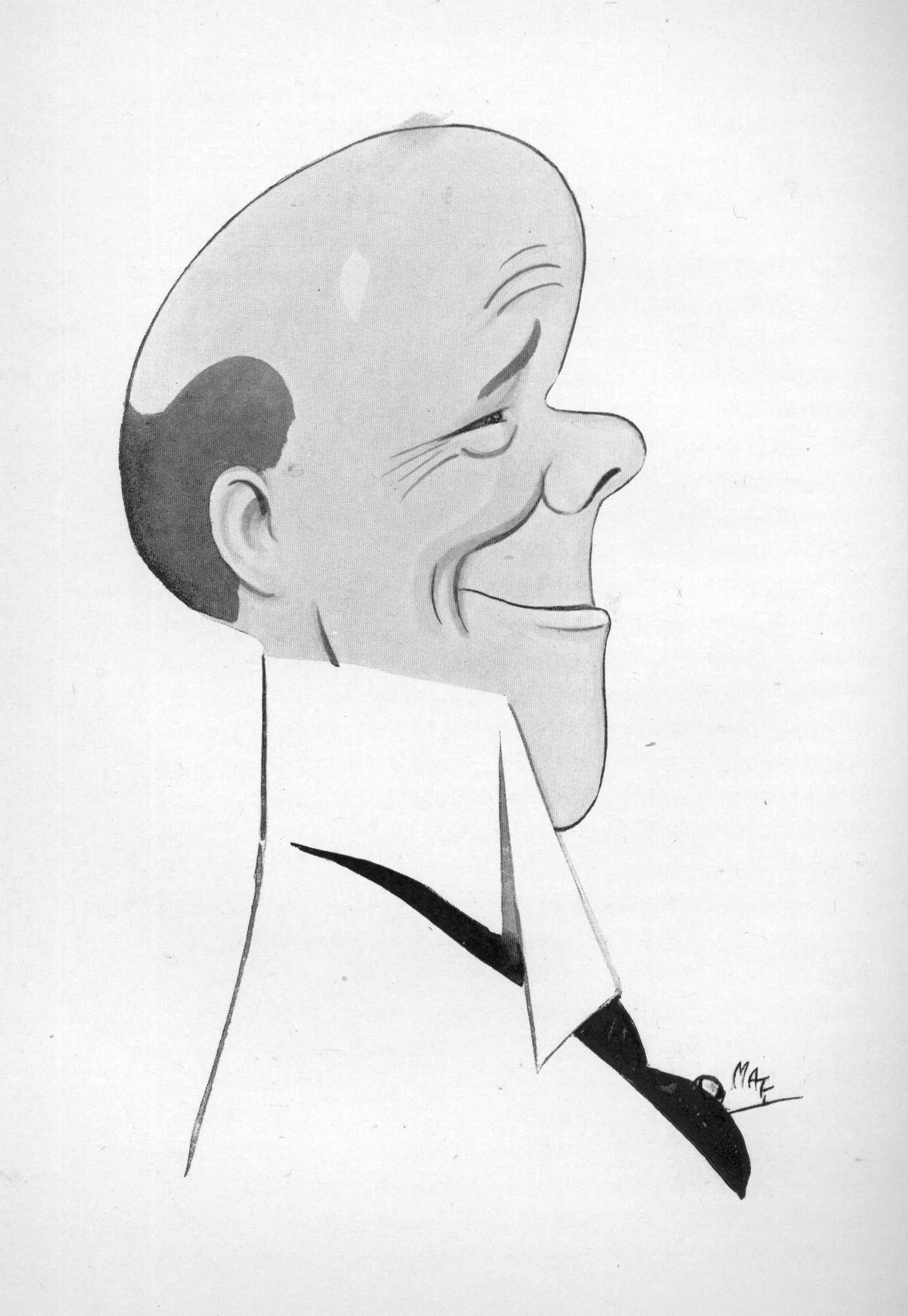 Cartoonish sketch/portrait of British politician Reginald McKenna. Drawn in 1923 as a "Half-Tone Plate" for a book by the Earl of Birkenhead.